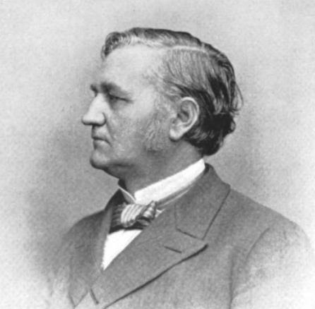 John Dean (February 15, 1835-May 29,1905) was a native of Williamsburg, Pennsylvania and district attorney in Hollidaysburg, Pennsylvania who became a Pennsylvania Supreme Court justice. He served in that latter role from the time of his appointment in 1892 until his death in Hollidaysburg in 1905.